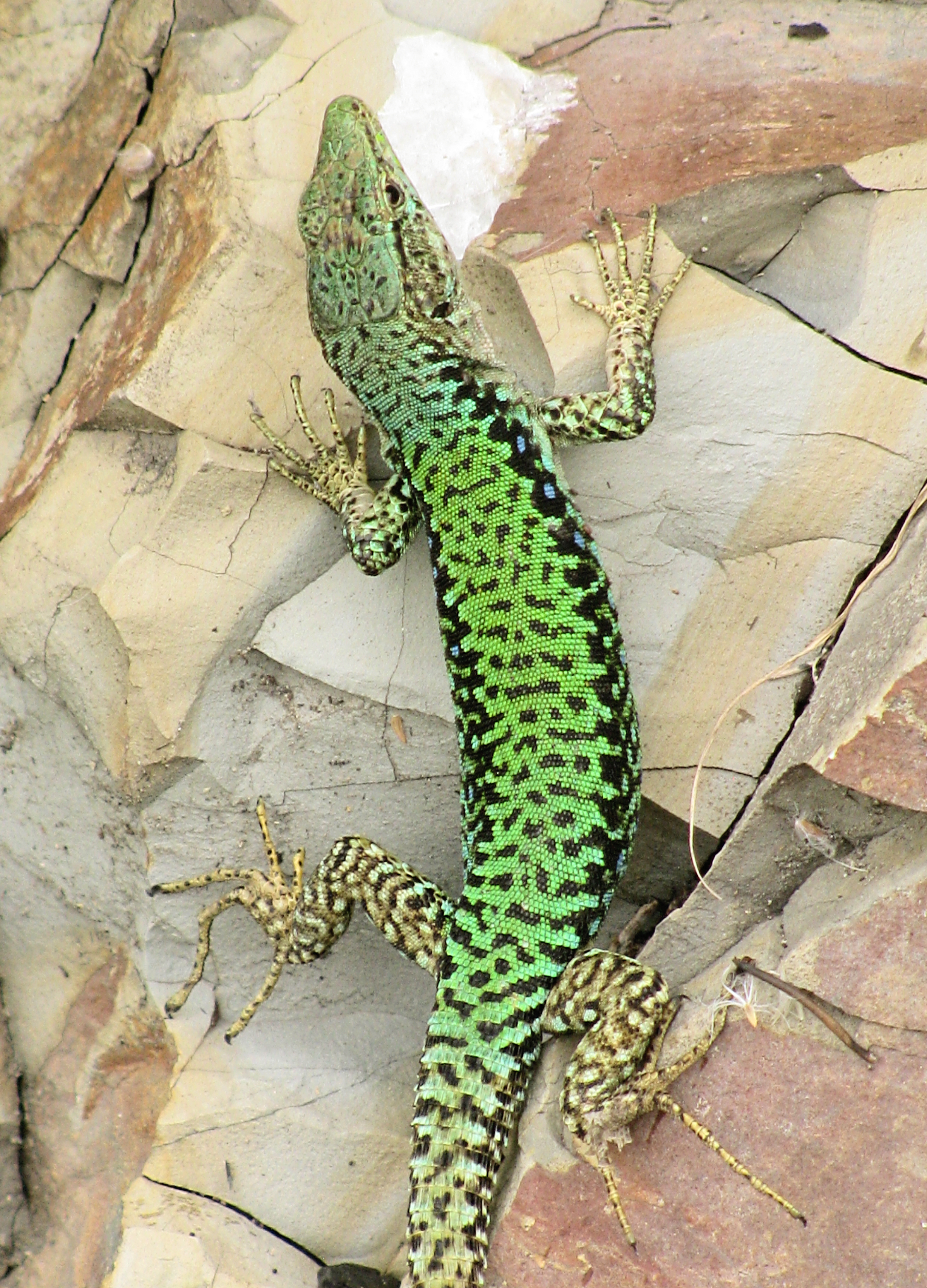 Darevskia rudis, Туапсе 2011 (0022)